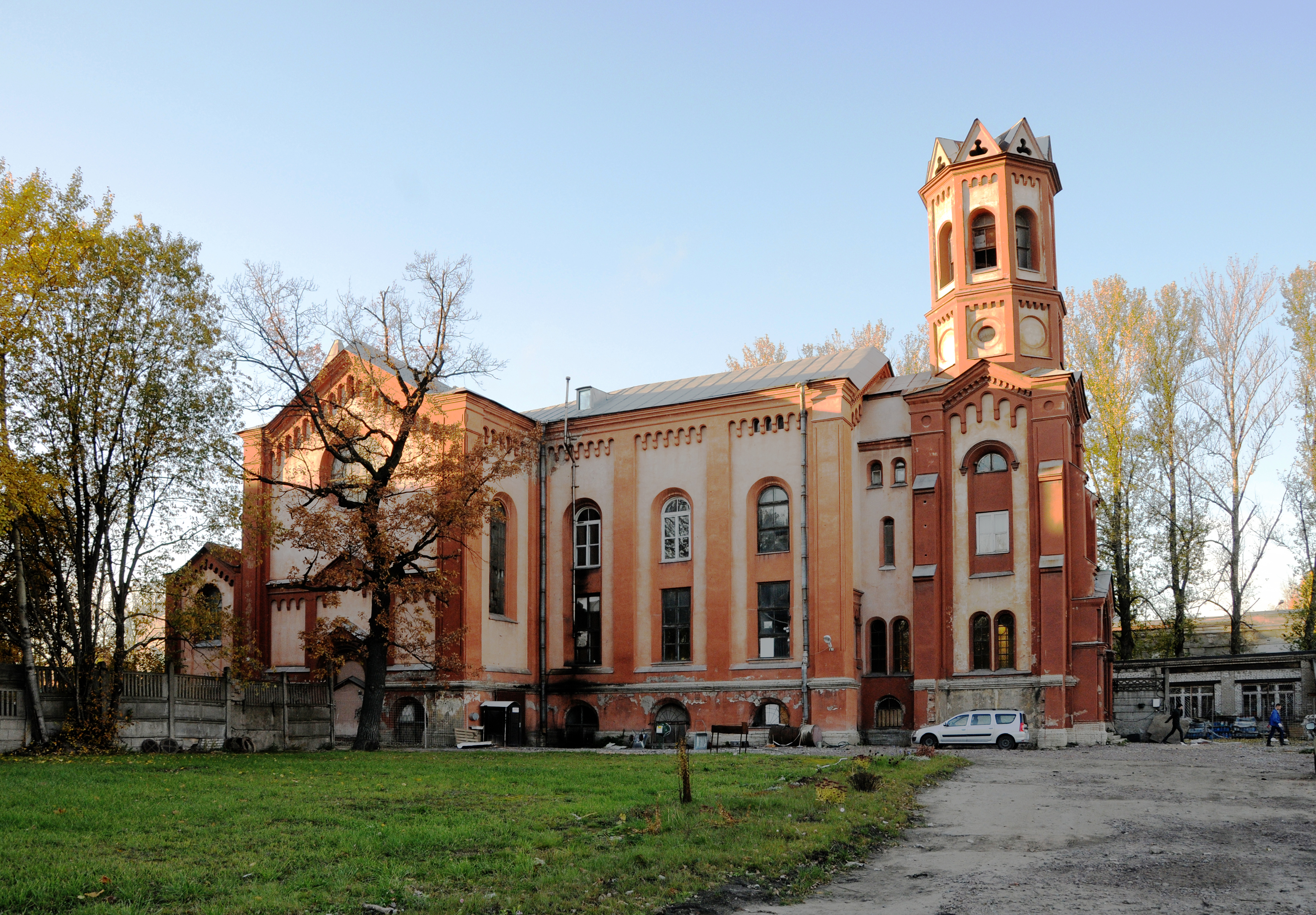 The current Catholic Church of the Visitation of Holy Mary Elizabeth, St. Petersburg, Mineralnaya street, view from the South-East side, October 2014